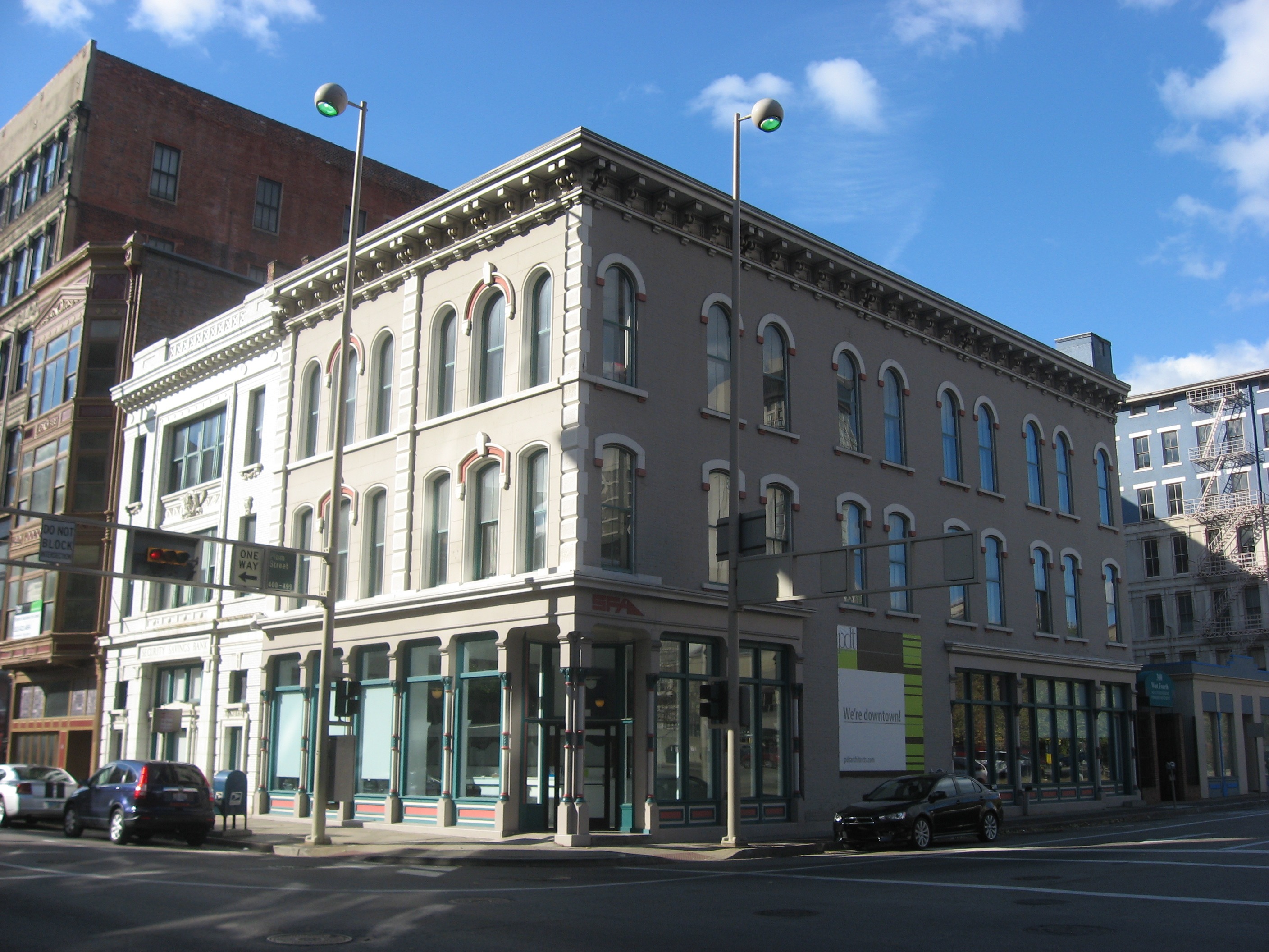 Southern and eastern sides of the H.W. Derby Building, located at 300 W. Fourth Street in downtown Cincinnati, Ohio, United States. Built in 1887, it is listed on the National Register of Historic Places, and it is part of a Register-listed historic district, the West Fourth Street Historic District.